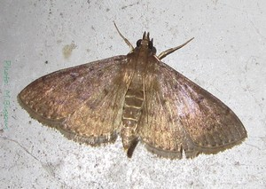 Pleuroptya violacealis (Syllepte violacealis) (Guillermet, 1996) Wingspan: 25mm picture taken in Réunion